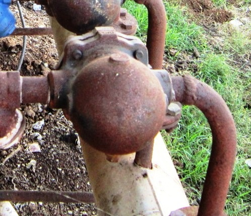 ball float steam trap is a kind of steam trap.